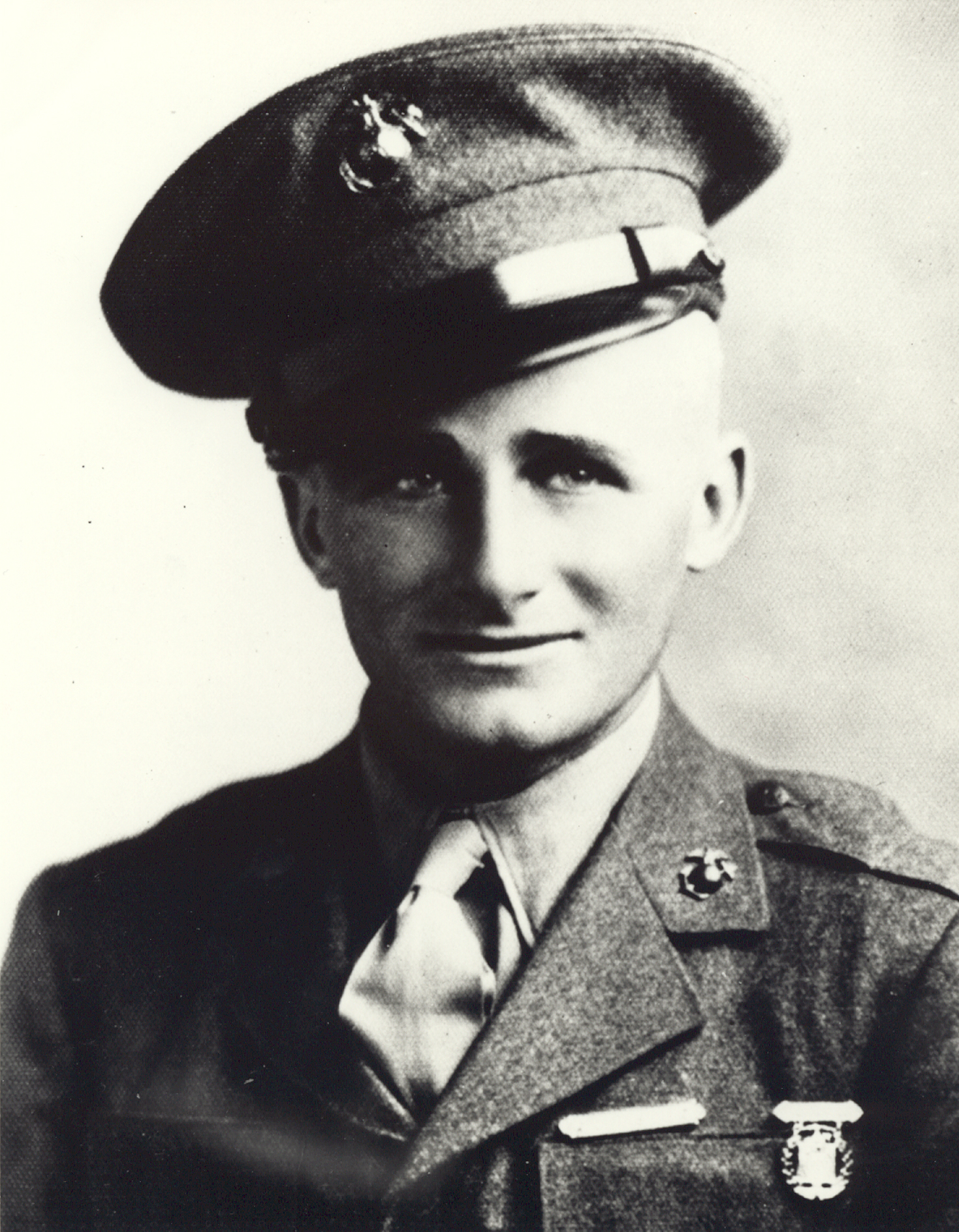 Private Dale M. Hansen, USMC; Medal of Honor recipient; photo from official Marine Corps biography at